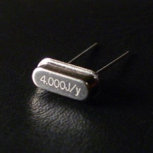 A miniature 4 MHz quartz crystal enclosed in an hermetically sealed HC-49/US package. Uploaded by Natrij on 4 February 2005.